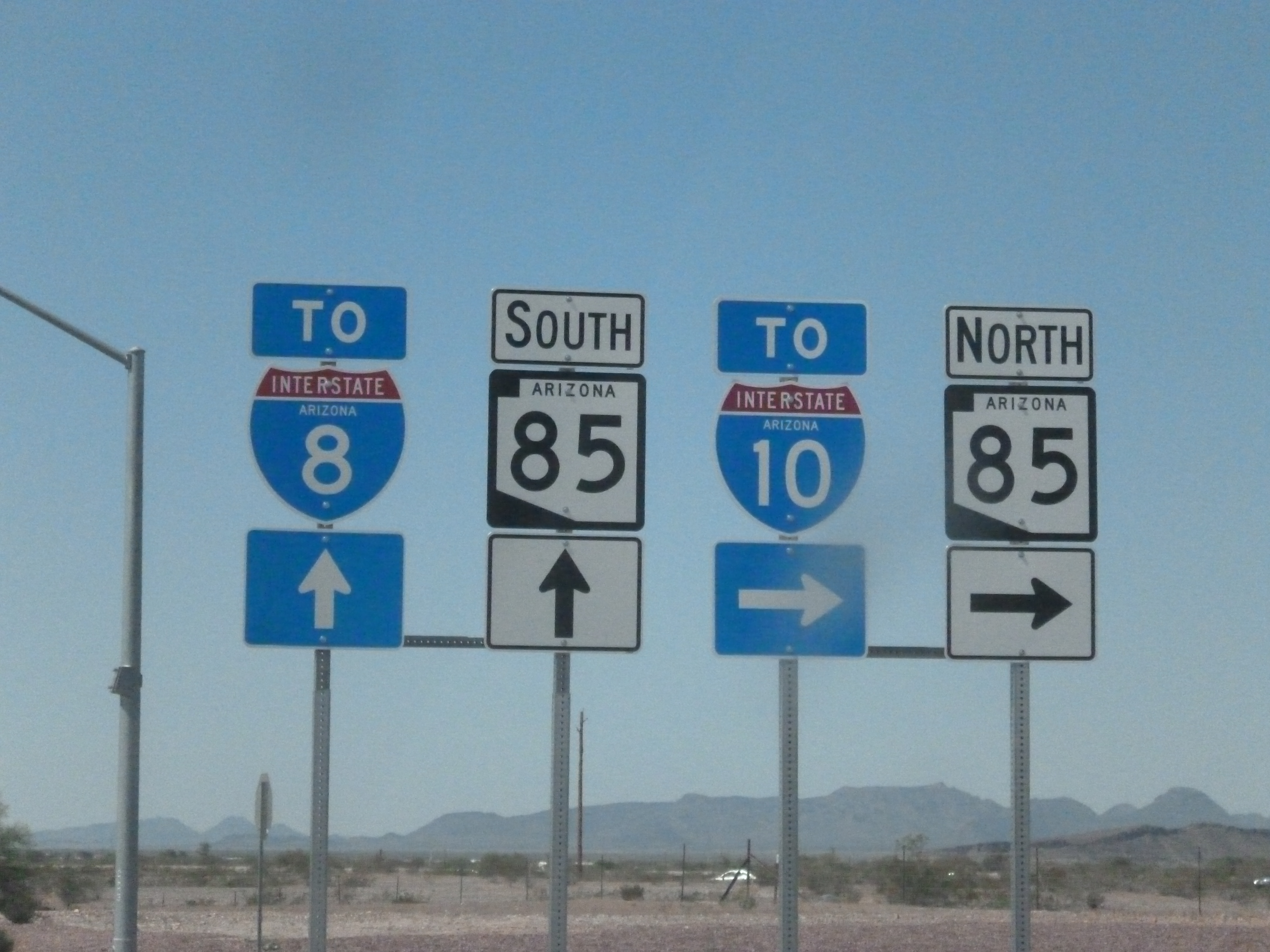 Arizona Route 85 Marker and Interstate 8 and 10 Markers near Gila Bend, AZ.